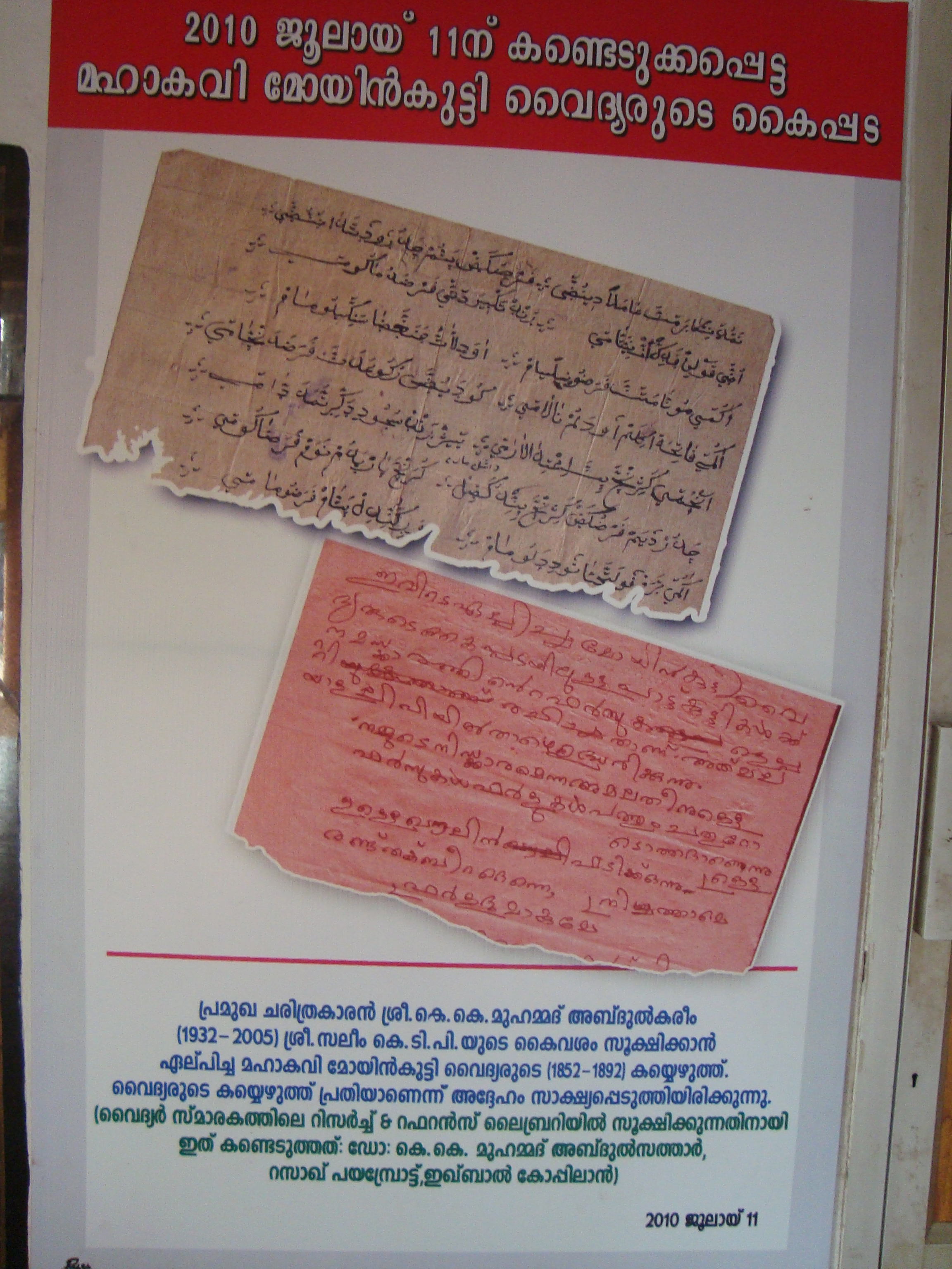 Handwritten manuscripts of Moyinkutty Vaidyar displayed at Vaidyar Smarakam, Kondotty